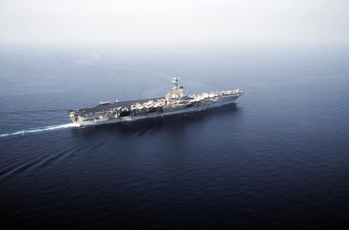 The U.S. Navy aircraft carrier USS Independence (CV-62) underway in the Persian Gulf in support of operation "Southern Watch". The Independence, with Carrier Air Wing 5 embarked, was deployed to the Western Pacific and the Indian Ocean from 23 January to 5 June 1998. This was her last deployment before her decommissioning on 30 September 1998.